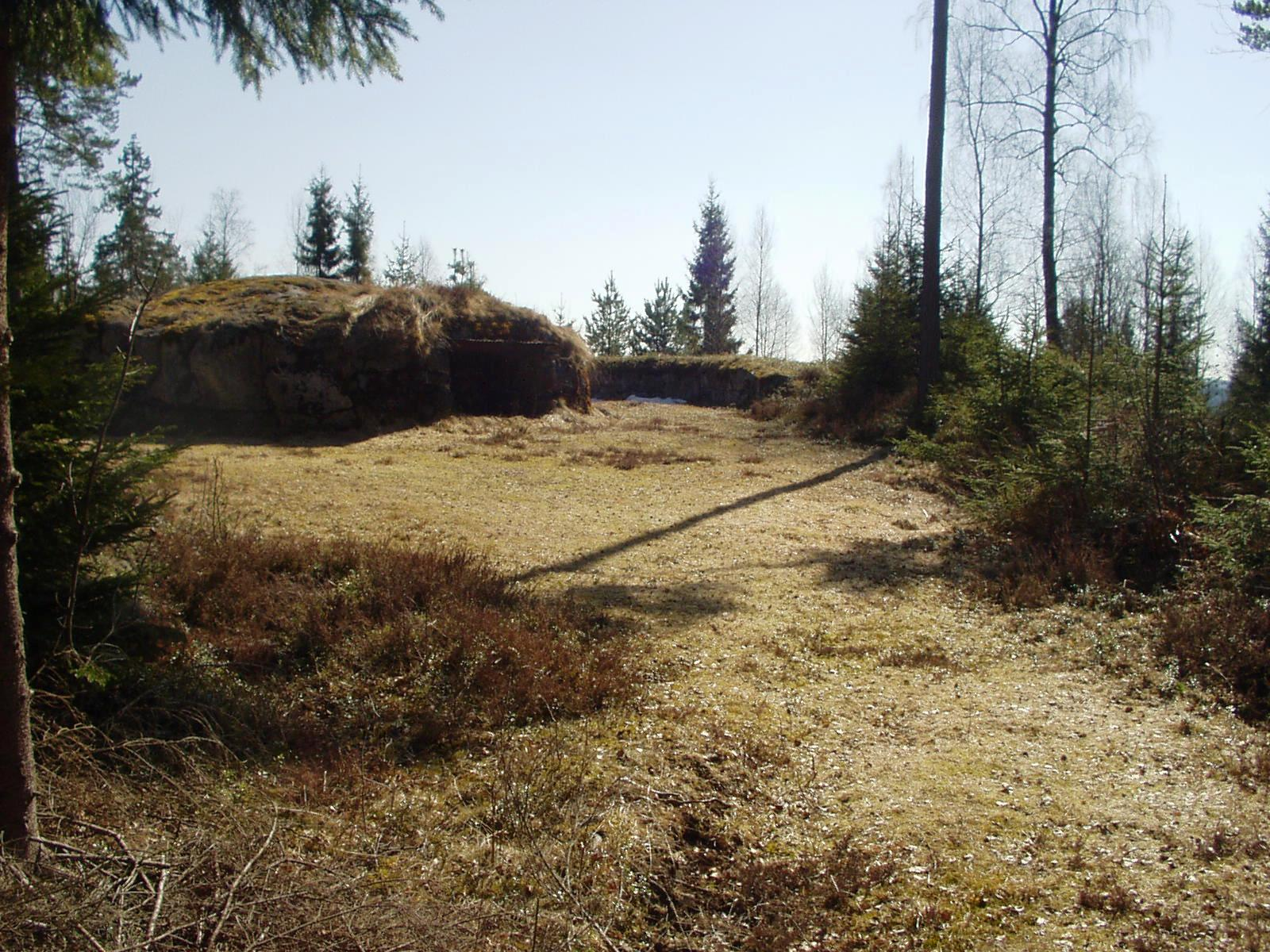 Gun position in Skoro battery south